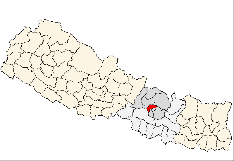 FrenchCarte de localisation dudistrict de Katmandou(wp-FR),au Népal (wp-FR).EnglishLocation map ofKathmandu District(wp-EN),in Nepal (wp-EN).